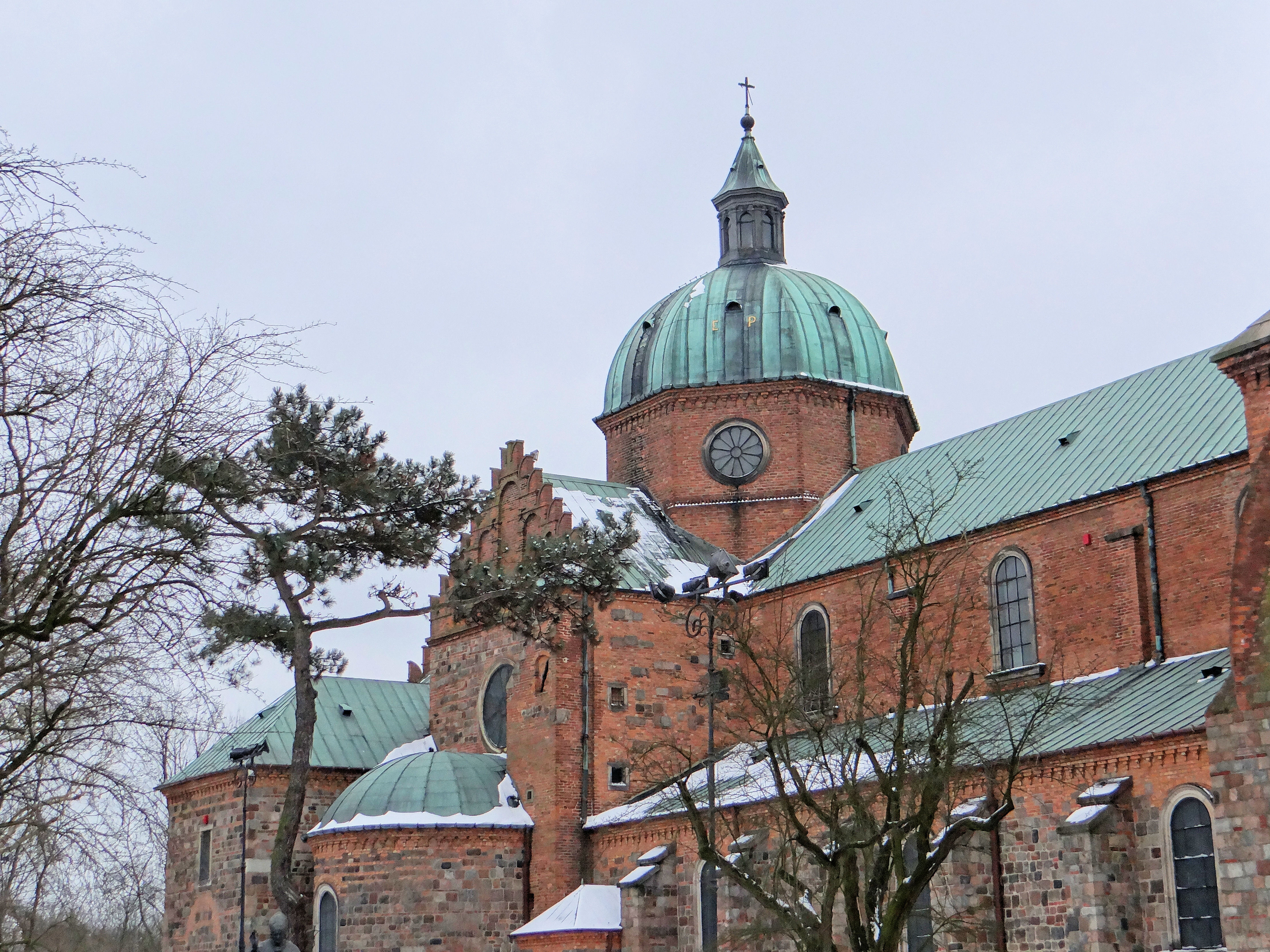 Detal of Płock Cathedral